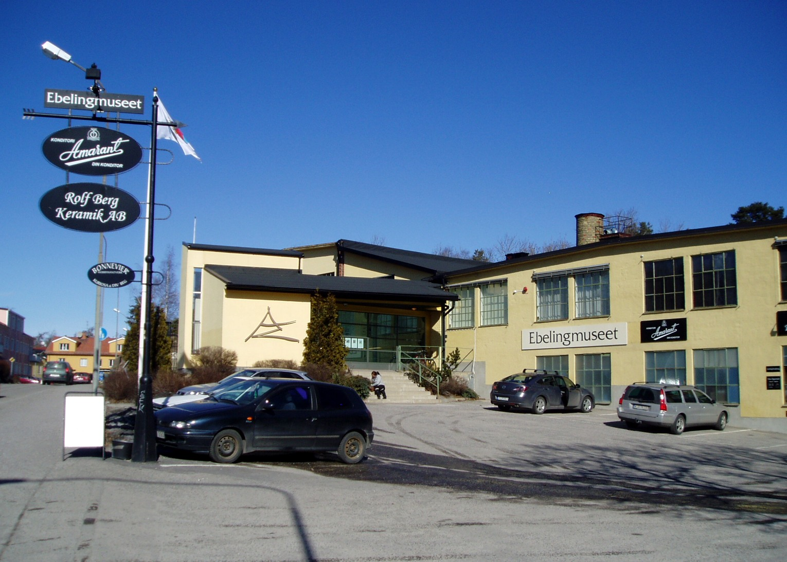 Ebeling Museum, Torshälla, Sweden